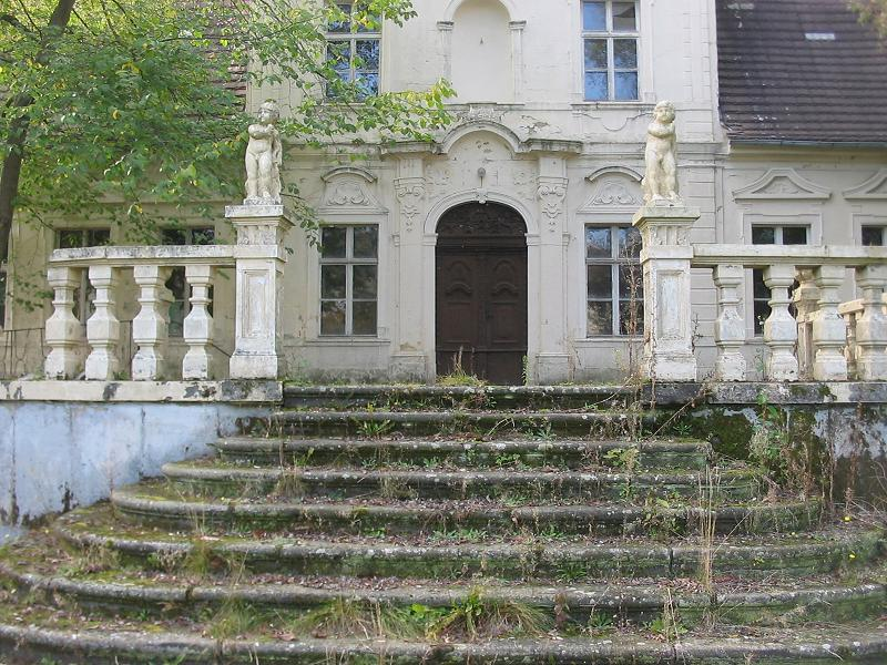 Castle Schmerwitz. The village Schmerwitz is a part of the village Schlamau. Schlamau again is a part of the municipality Wiesenburg (Mark) in the district Potsdam-Mittelmark of the German state Brandenburg. Schmerwitz appertains to the nature park Naturpark Hoher Fläming.